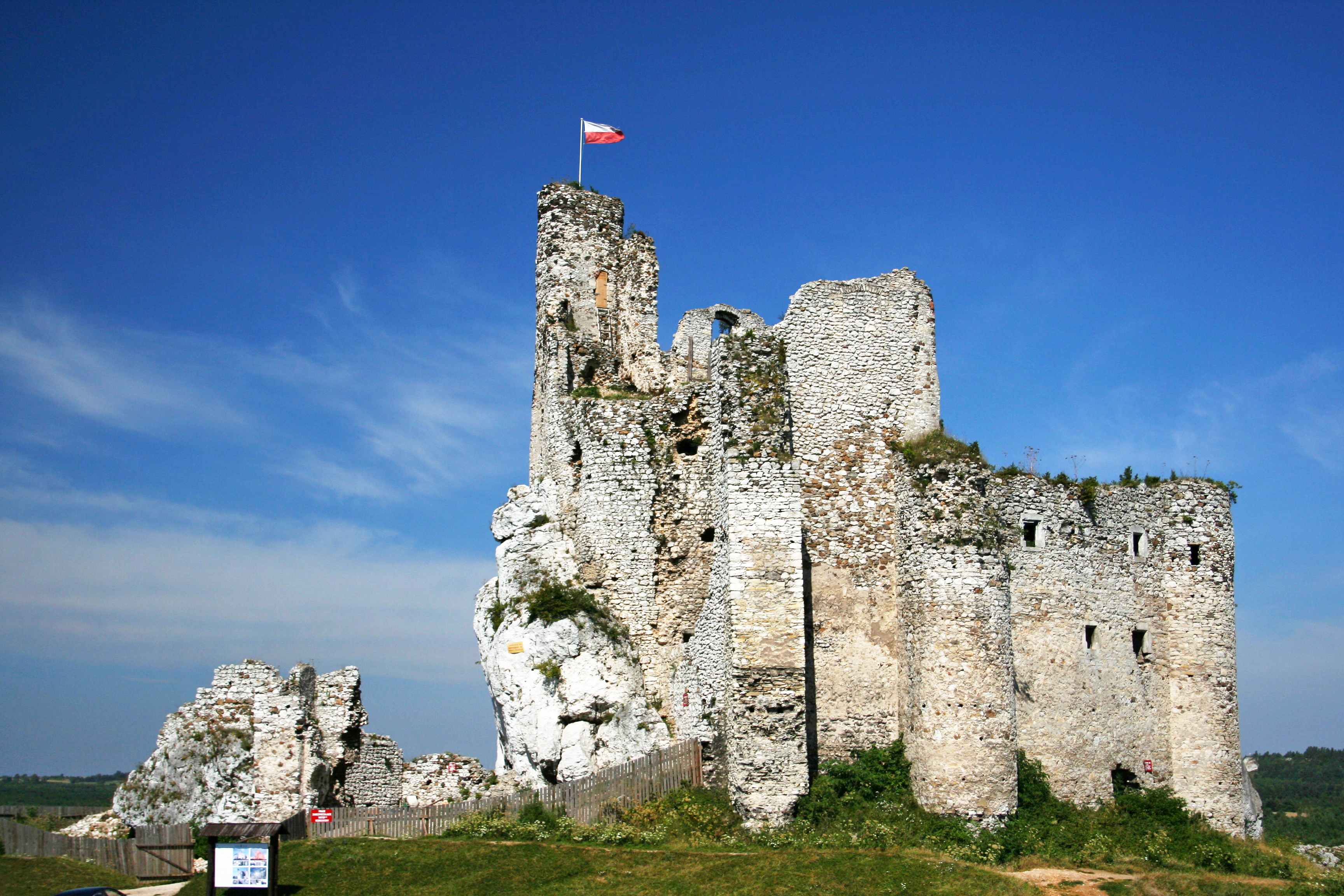 Mirów Castle